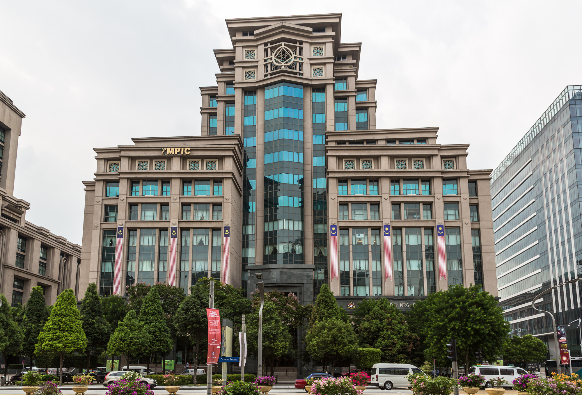 Putrajaya, Malaysia: Ministry of Plantation Industries and Commodities (MPIC) aka Kementerian Perusahaan Perladangan Dan Komoditi (KPPK), National Audit Department (Jabatan Audit Negara), Immigration Department of Malaysia / Jabatan Imigresen Malaysia